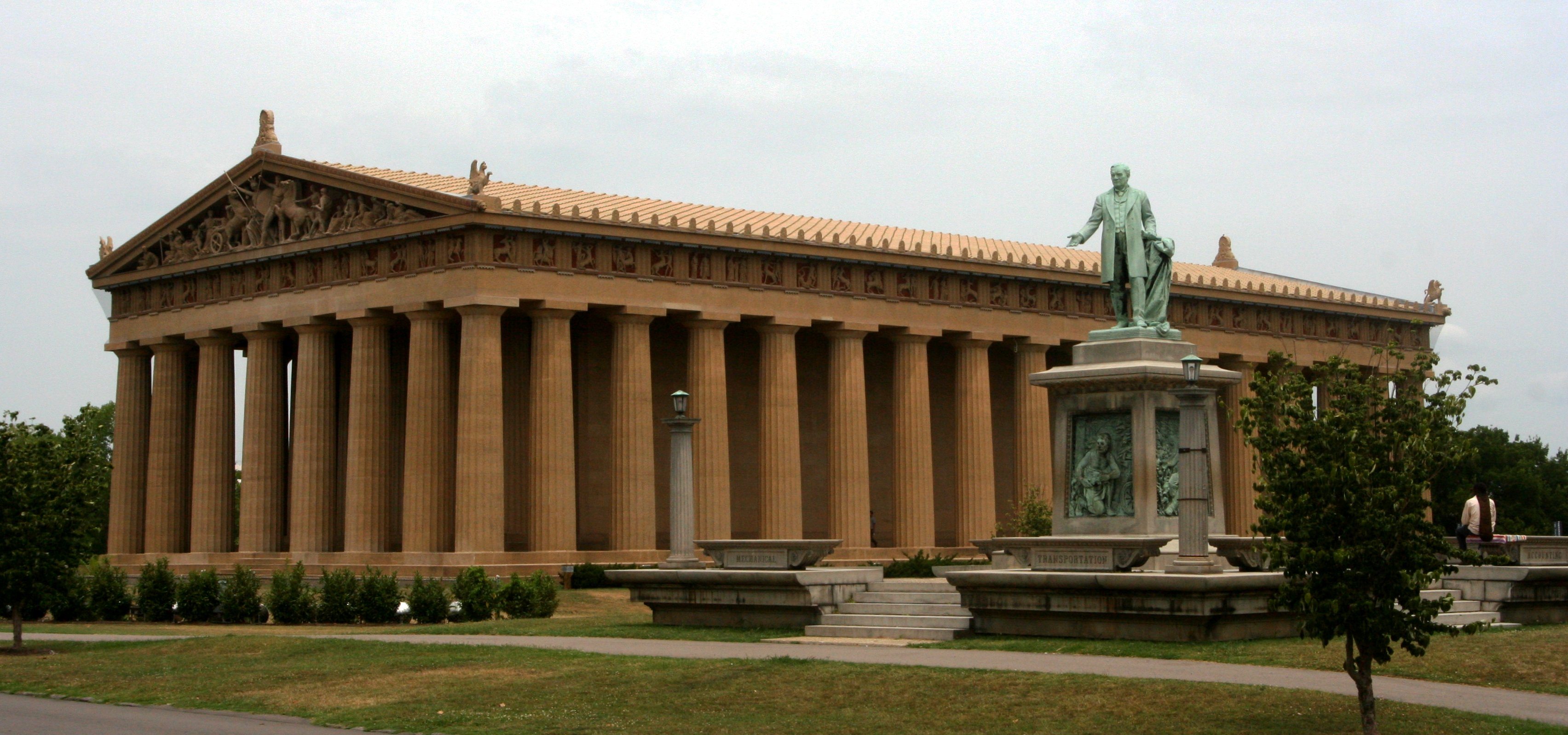 The Nashville Parthenon (and unidentified statue), viewed from the south.